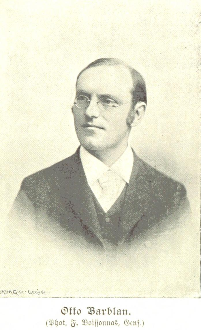 Otto Barblan Image taken from: Title: "Die Schweiz im neunzehnten Jahrhundert. Herausgegeben von schweizerischen Schriftstellern unter Leitung von P. Seippel" Author: SEIPPEL, Paul. Shelfmark: "British Library HMNTS 9305.h.2." Volume: 02 Page: 613 Place of Publishing: Lausanne Date of Publishing: 1899 Issuance: monographic Identifier: 003330970 Explore: Find this item in the British Library catalogue, 'Explore'. Download the PDF for this book (volume: 02) Image found on book scan 613 (NB not necessarily a page number) Download the OCR-derived text for this volume: (plain text) or (json) Click here to see all the illustrations in this book and click here to browse other illustrations published in books in the same year.